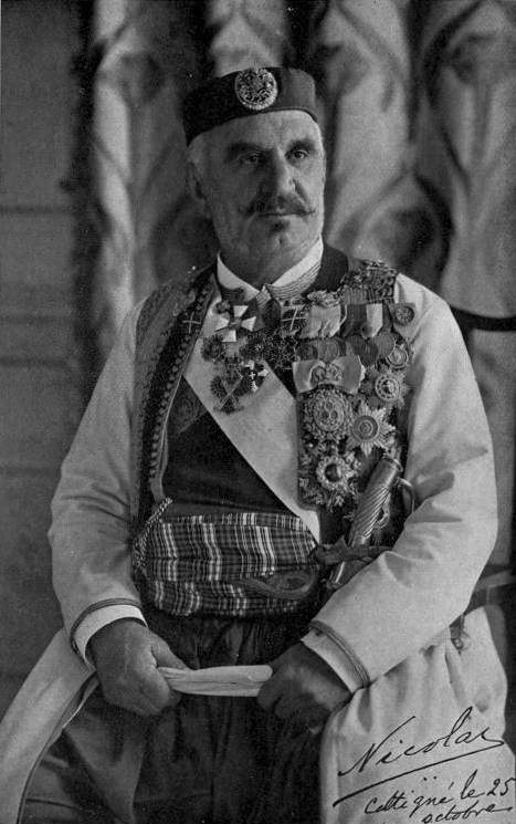 Original description: "His Royal Highness Prince Nicholas of Montenegro"